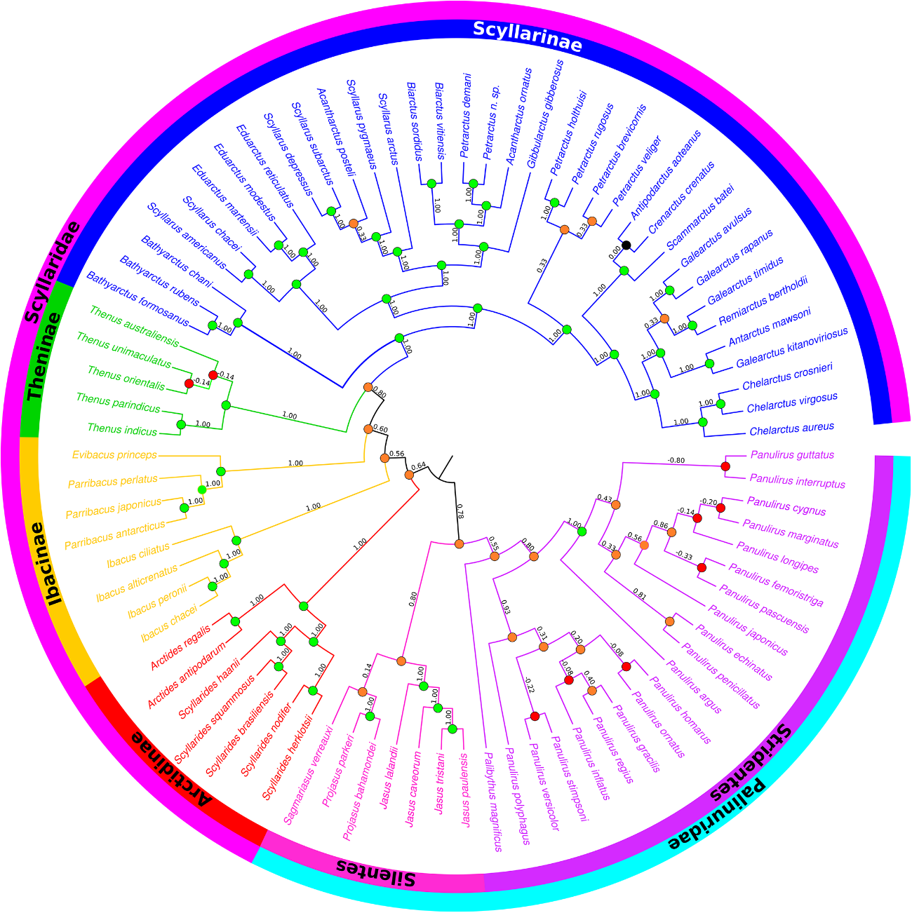 Achelata philogeny